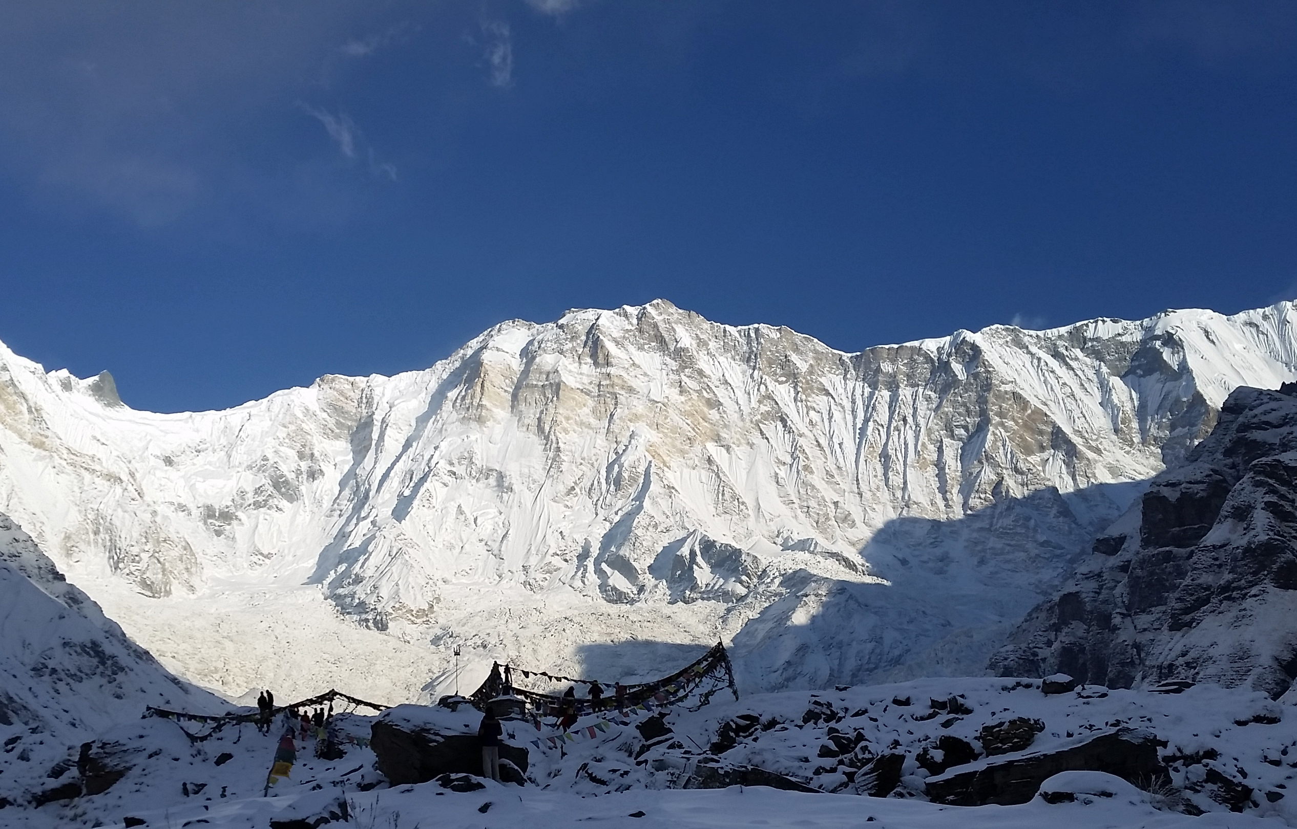 View of the Annapurna I during sunrise, from the Annapurna Base Camp in 2016.